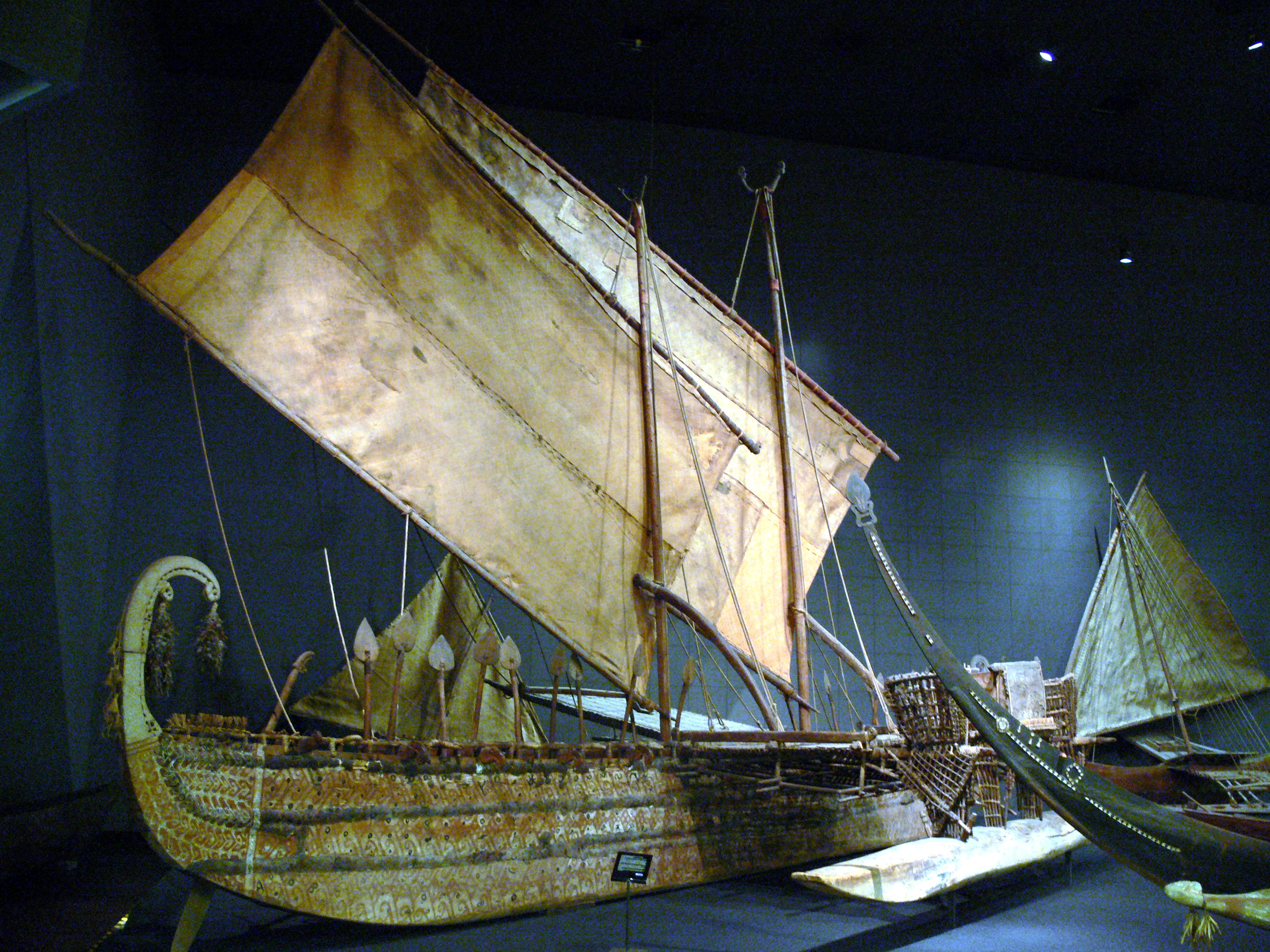 Ship from Luf, Bismarck Archipelago, Papua New Guinea; c. 1890. Ethnological Museum, Berlin-Dahlem (since 1904).